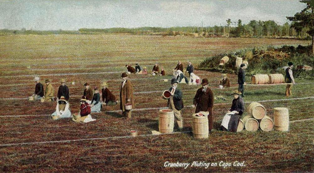 Cranberry picking on Cape Cod, Massachusetts; from a 1906 postcard published by the Hugh C. Leighton Company, Portland, Maine.